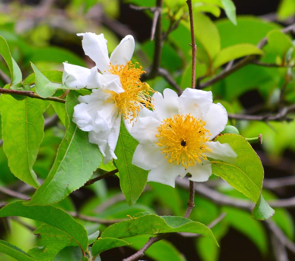 Oncoba spinosa - Lower Sabie, Kruger National Park - South Africa